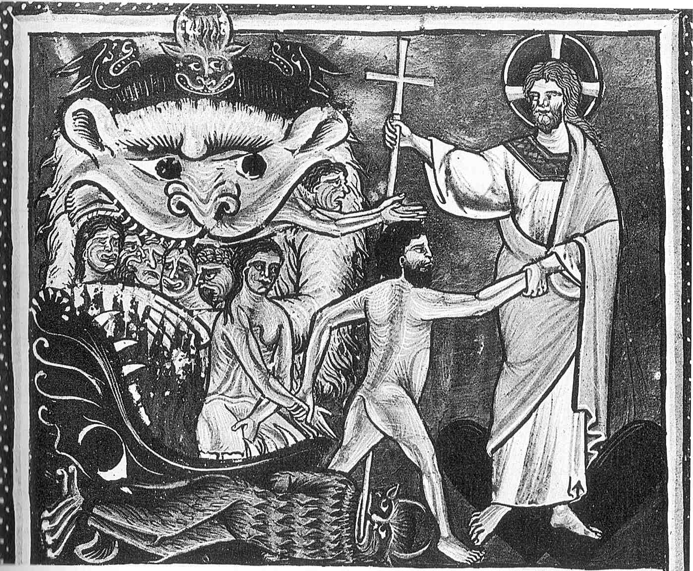 Jesus Christ saving the souls of the damned.